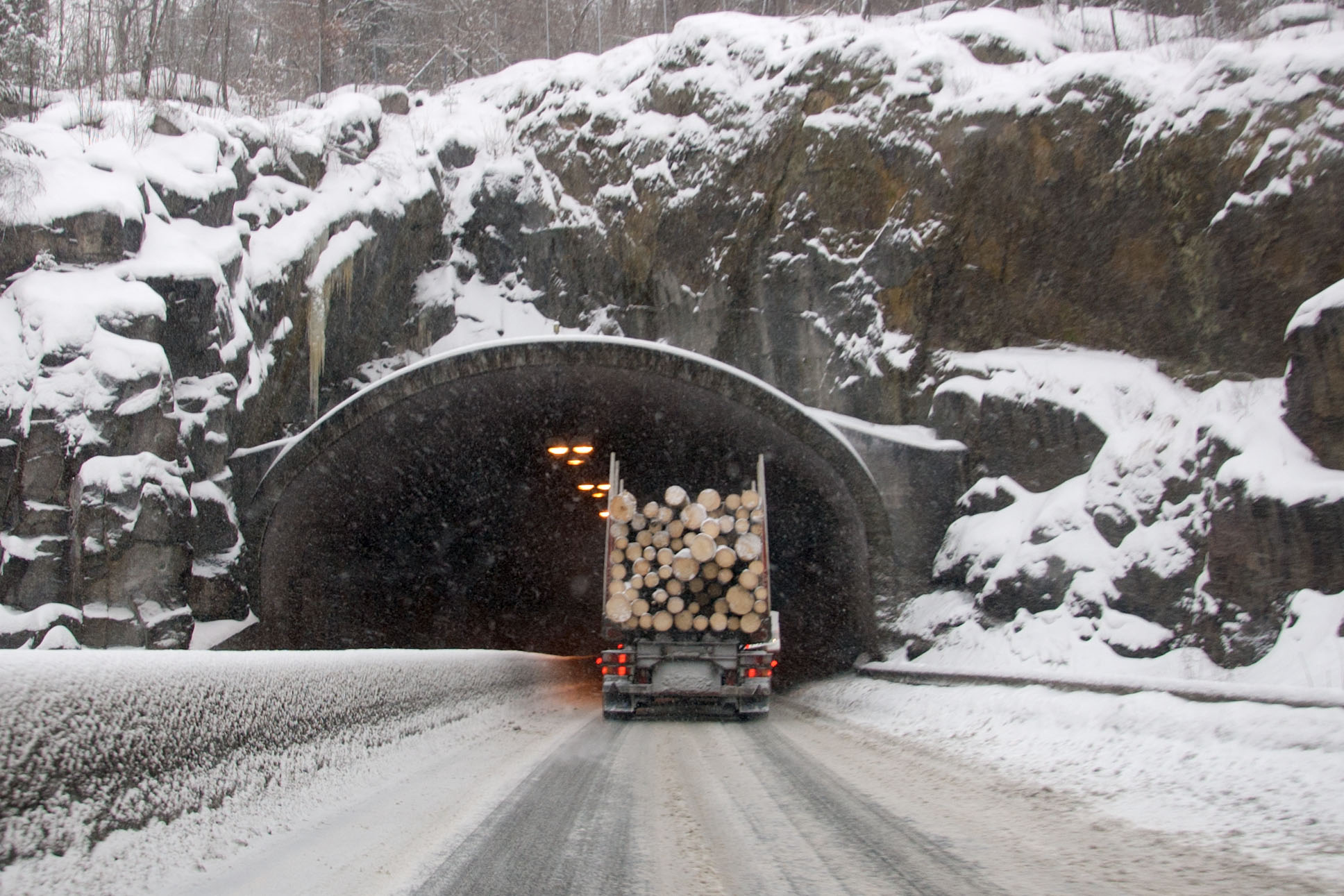 Telemarksporten road tunnel on E18 in Telemark, Norway.